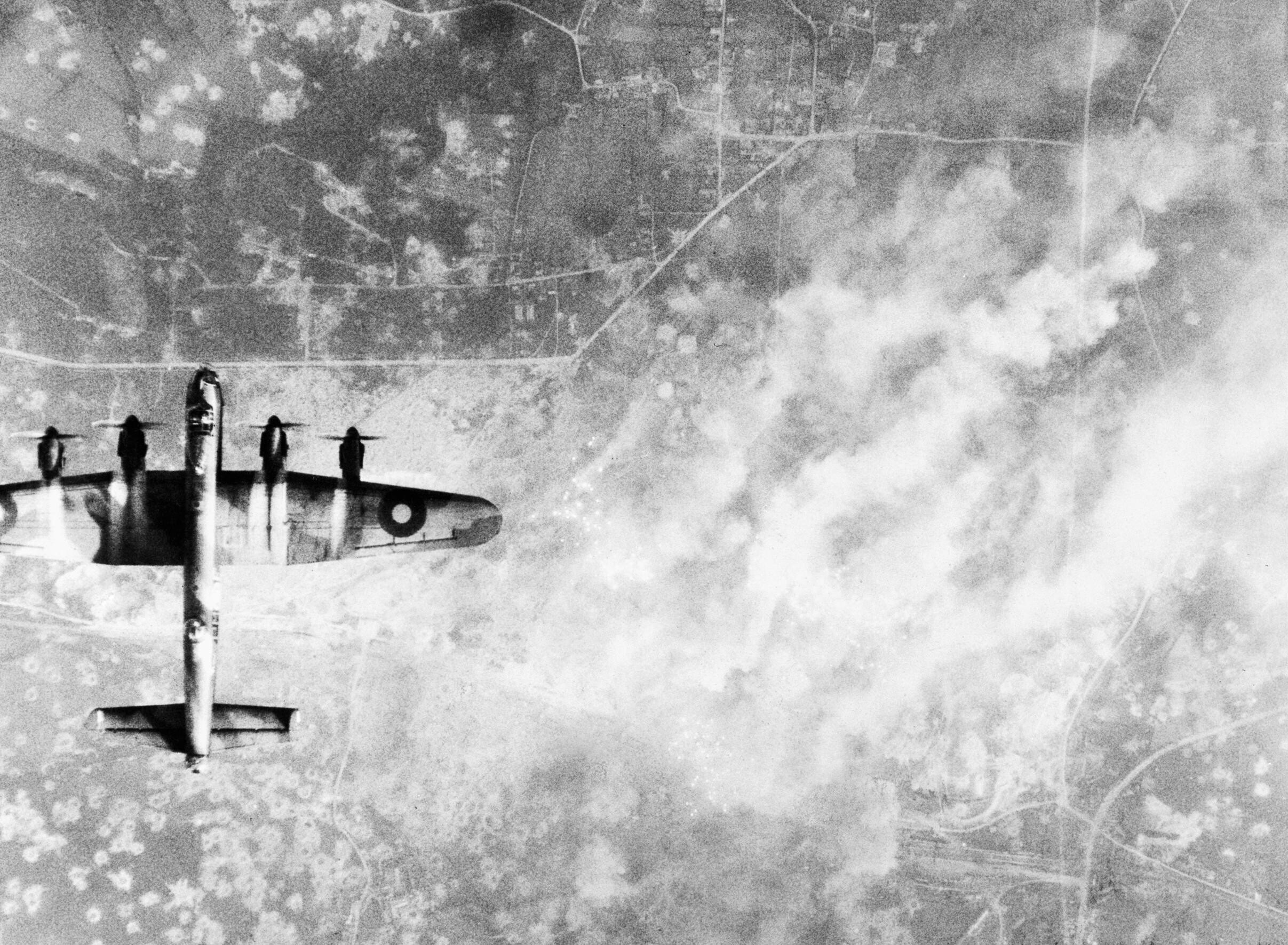 Vertical aerial photograph taken during the evening attack on the V2 assembly and launching bunker at Wizernes, France by aircraft of No. 1 Group. An Avro Lancaster of No. 103 Squadron RAF flys over the target area